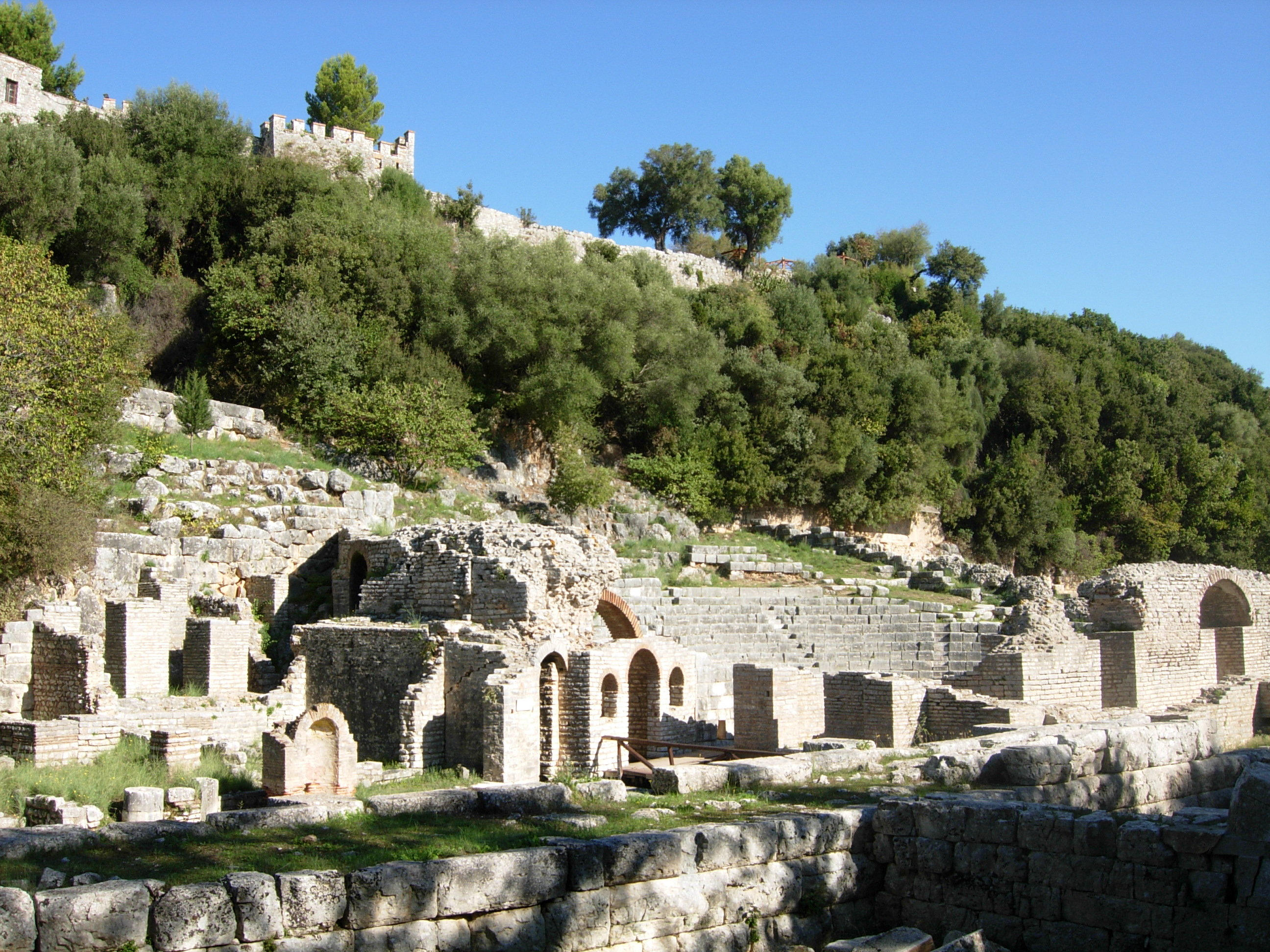 Butrint, Albania: Agora with the Asclepios Sanctuary in the centre, the theatre at right, the Venetian fortress above